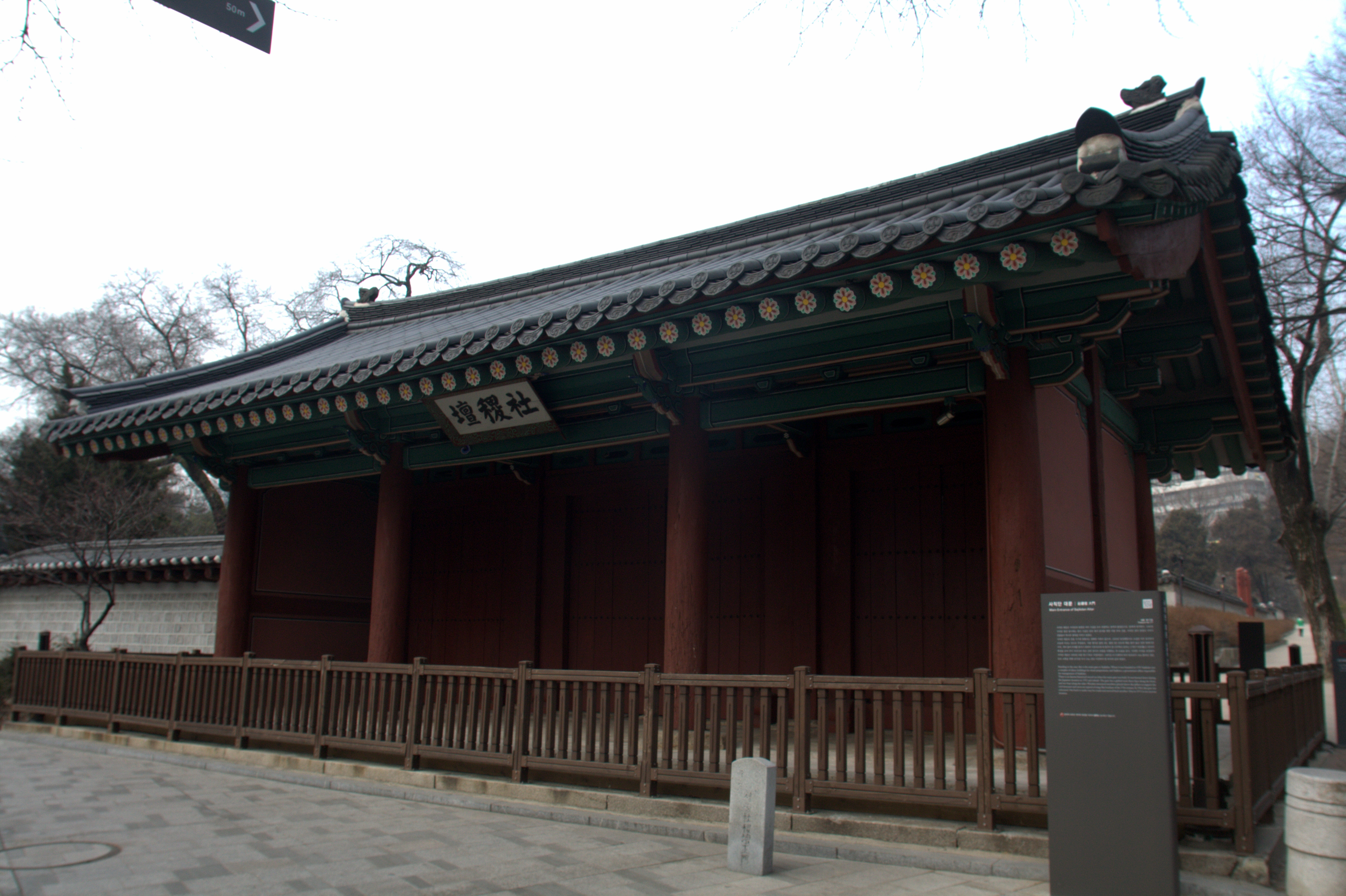 The Gate of Sajikdan Shrine(for Soil and grain) in Seoul, Korea